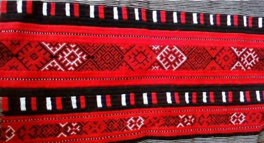 balochi doozi